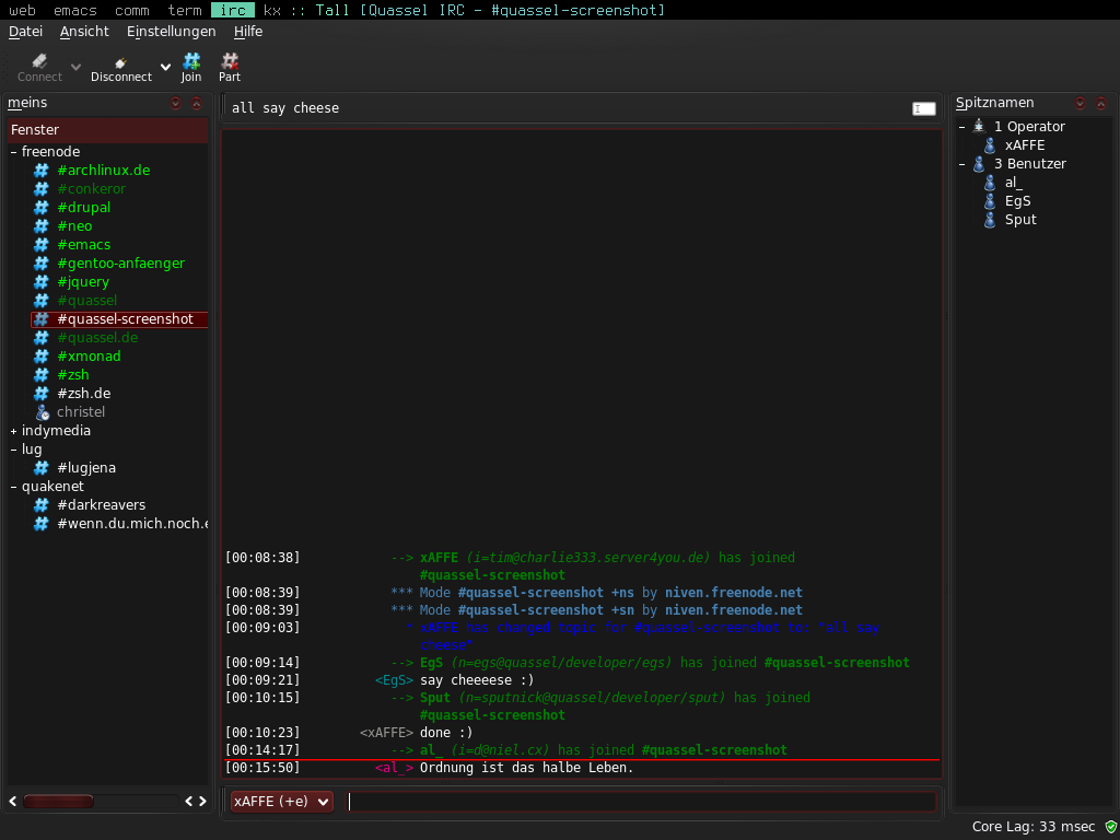 Screenshot of Quassel IRC on Archlinux using xmonad and xmobar